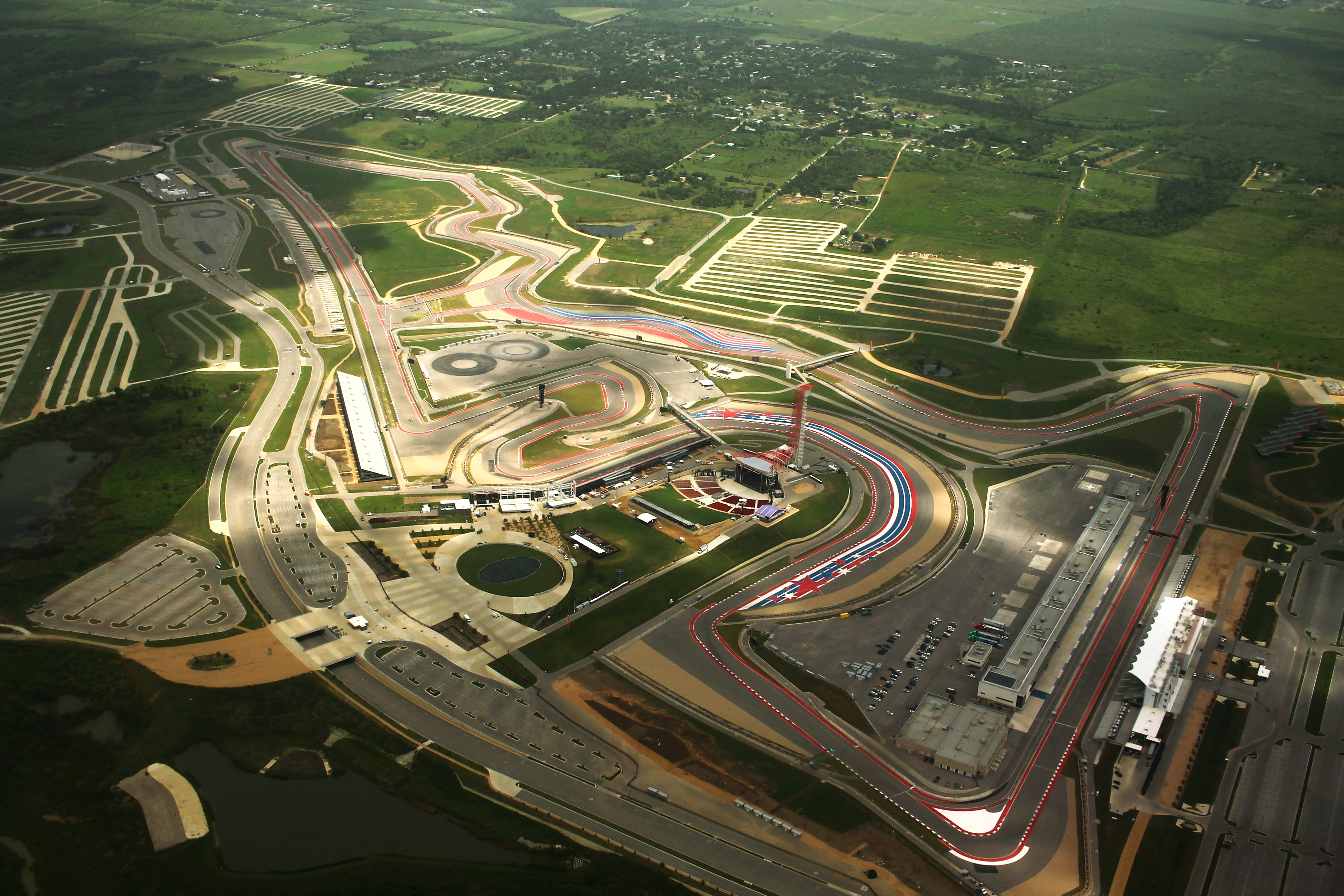 An aerial view of the Circuit of the Americas, located in Austin, Texas.